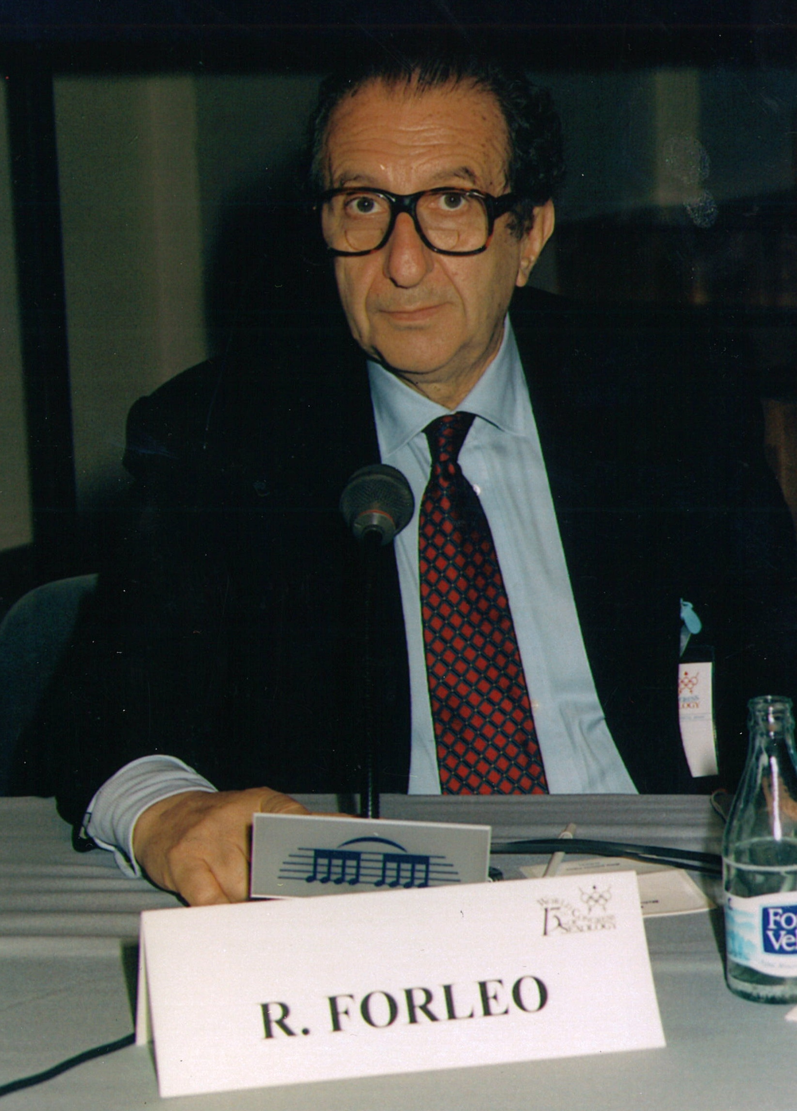 Romano Forleo in a Congress